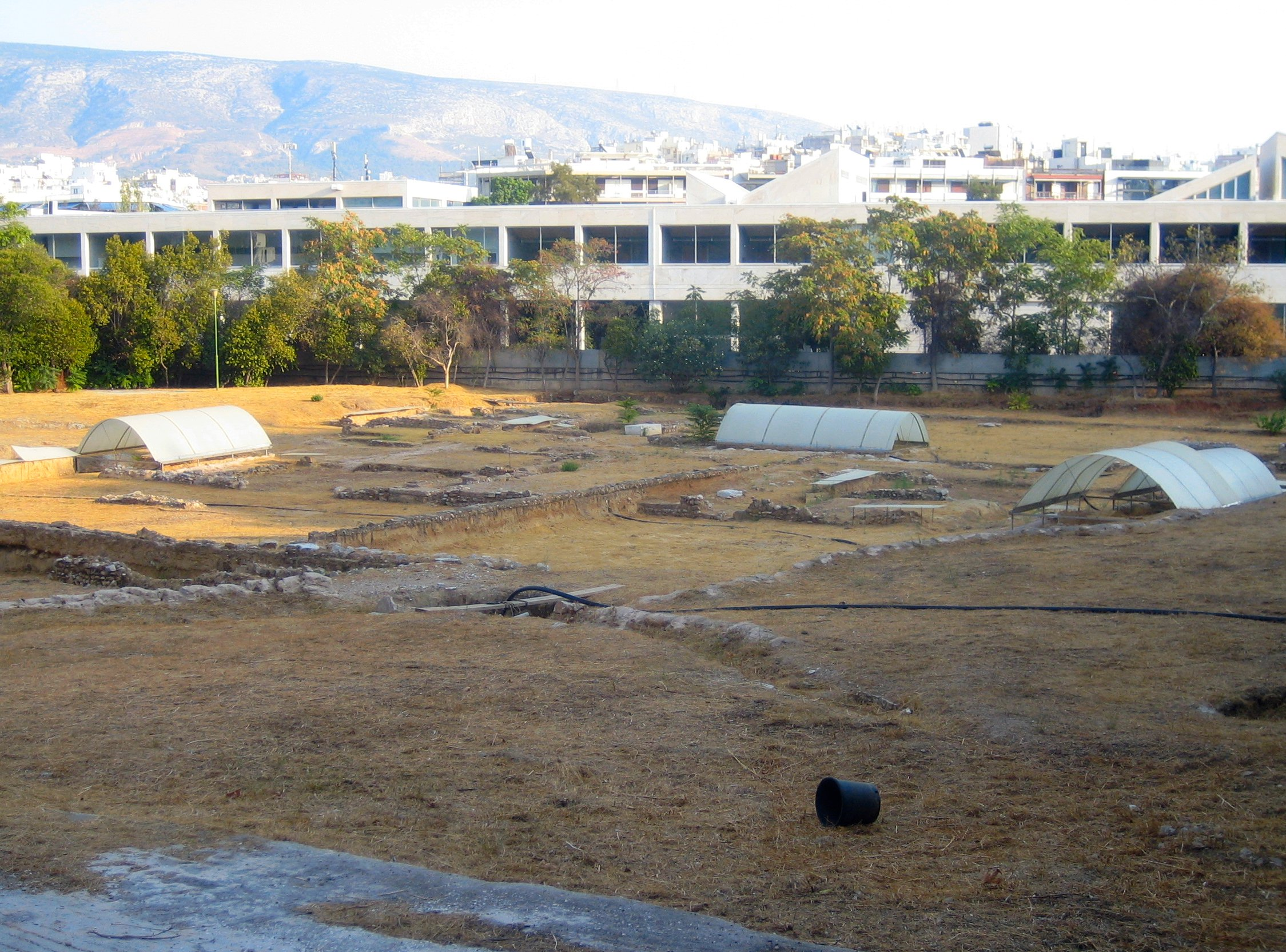 Aristotle's Lyceum gymnasium, archaeological site in Rigillis Street, Athens.